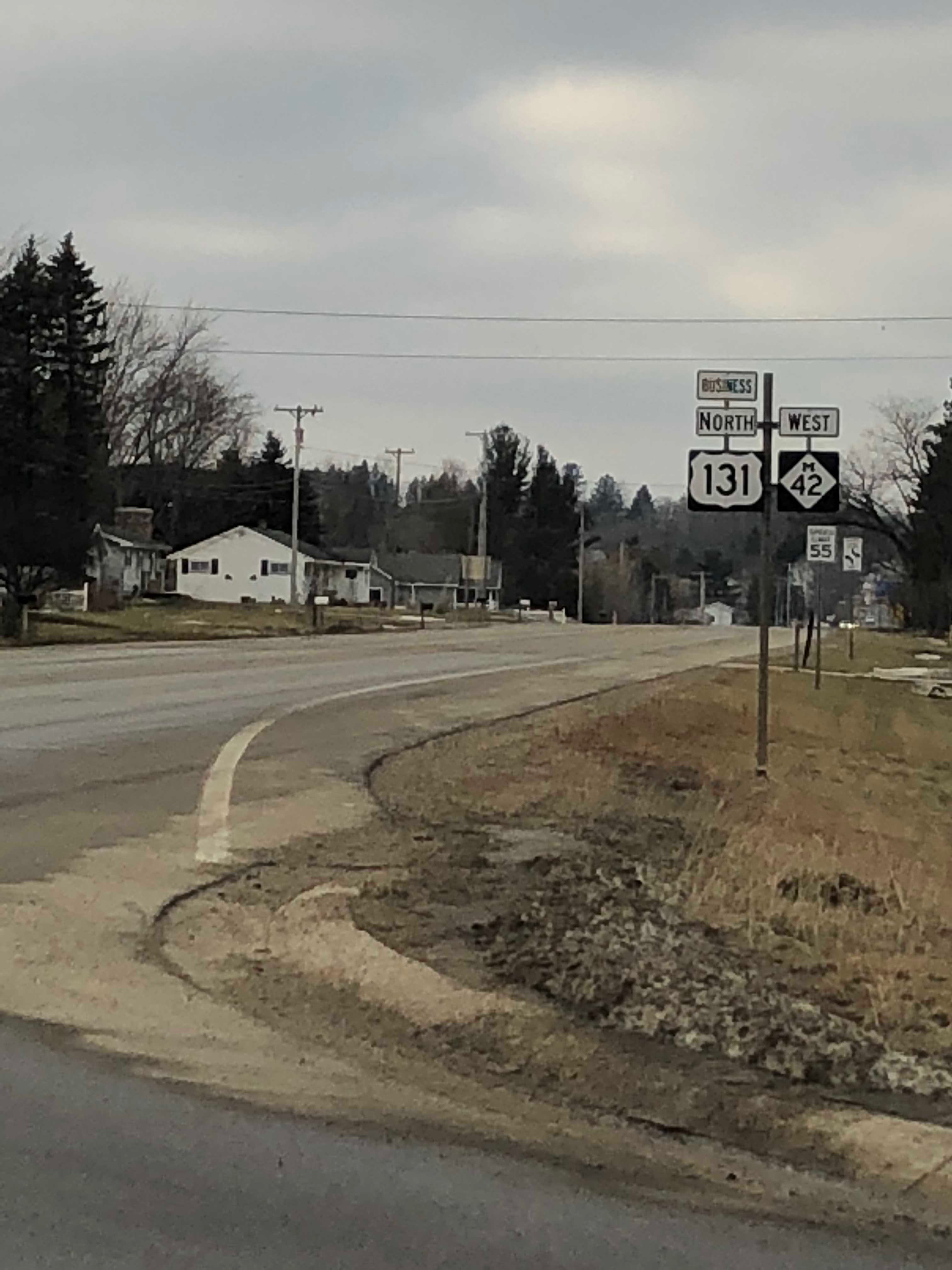 M-42 Marker in Manton